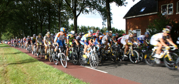 Vuelta a España 2009, Drenthe 2009-08-30